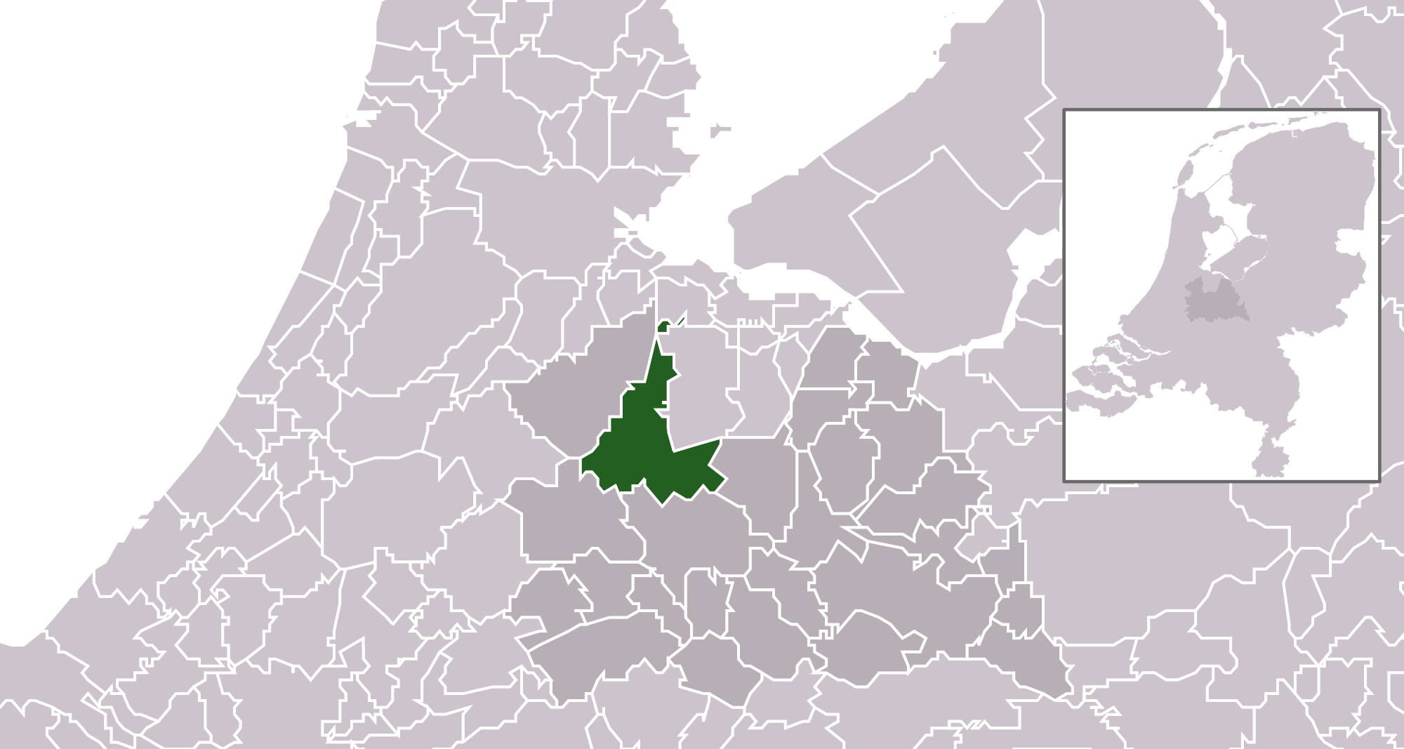 Stichtse Vecht, CBS code 1904 Automatically generated with script File name contains "Municipality code" (CBS-code) as specified in: [1] Created in svg using coordinate data derived from ESRI data published by Centraal Bureau voor de Statistiek, Voorburg/Heerlen. ([2]) Color coding and original design (slightly adpated by me) by user Mtcv (2006/2007) ([3]) Updated until January 1, 2014 The copyright holder of this file, Centraal Bureau voor de Statistiek, allows anyone to use it for any purpose, provided that the copyright holder is properly attributed. Redistribution, derivative work, commercial use, and all other use is permitted. Attribution: Centraal Bureau voor de Statistiek This work is free and may be used by anyone for any purpose. If you wish to use this content, you do not need to request permission as long as you follow any licensing requirements mentioned on this page.